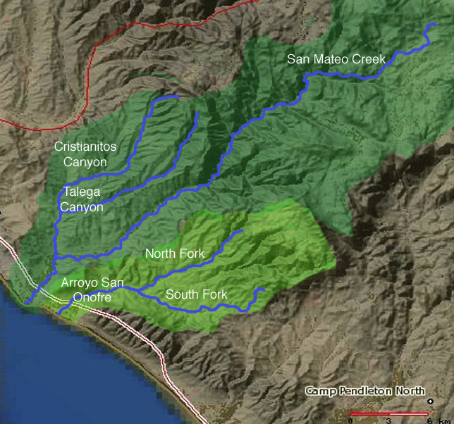 Map of San Mateo Creek and Arroyo San Onofre watersheds near San Clemente, CA. San Mateo is in green and San Onofre is in yellow.